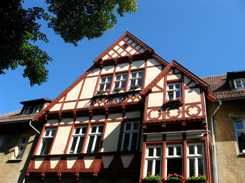 Building in Quedlinburg / Germany Baudenkmal in Quedlinburg